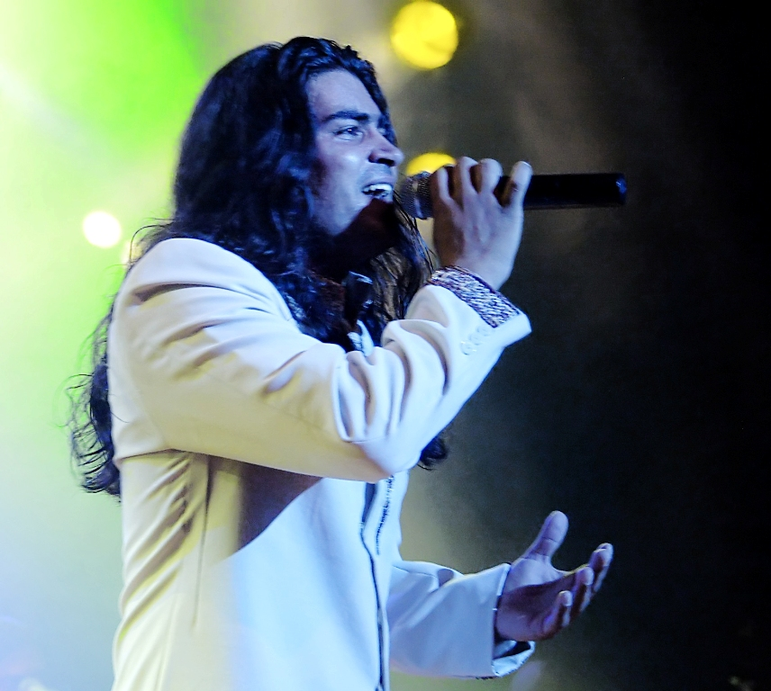 Bilal (Lebanese singer) in a live performance